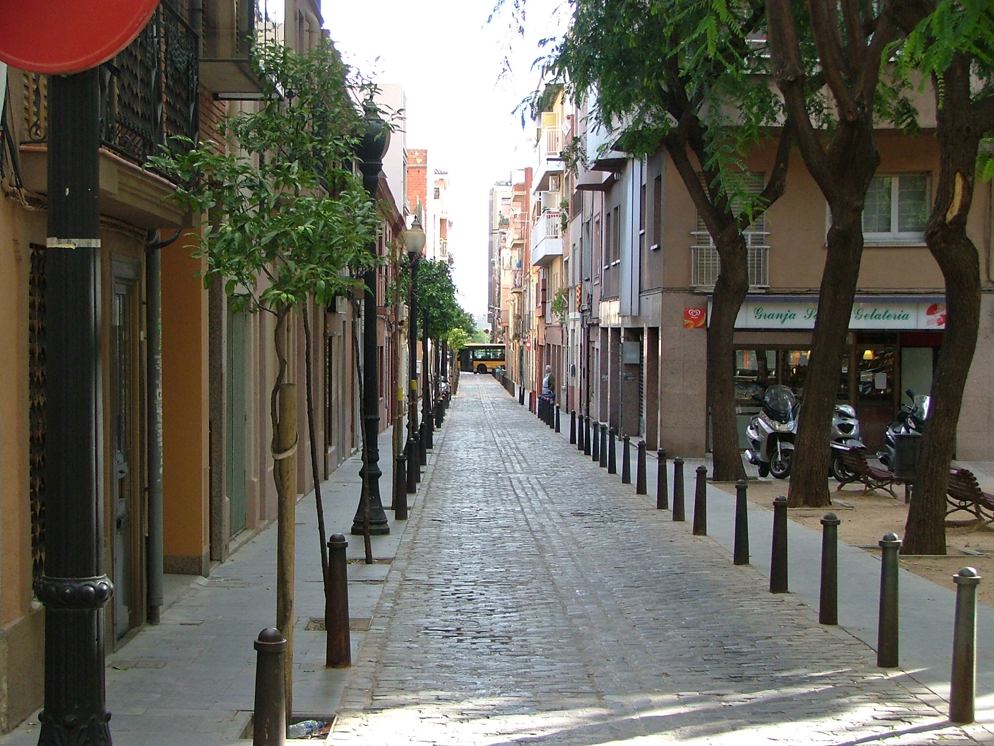 Carrer de Borriana, Barcelona, Catalonia, Spain